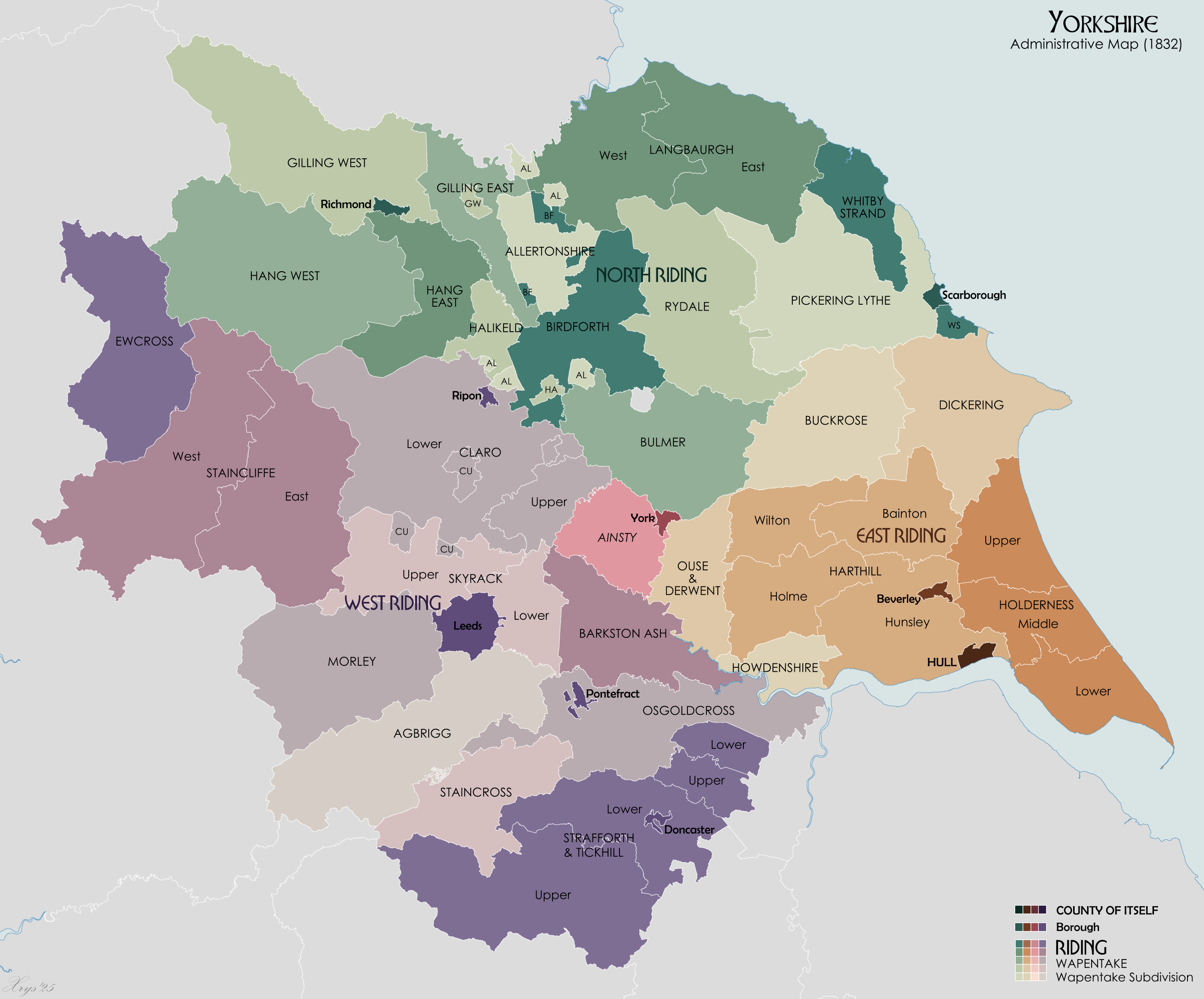 Administrative map of Yorkshire in 1832 showing Ridings and Wapentakes. Also showing extant Boroughs and the County of Itself of Hull. Wapentake boundaries from University of Nottingham English Place Name Society. Source data for parish boundaries - Kain, R.J.P., and Oliver, R.R. (2001) "Historic parishes of England and Wales". Unit names from Vision of Britain website.